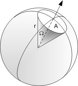 Solid angle definition